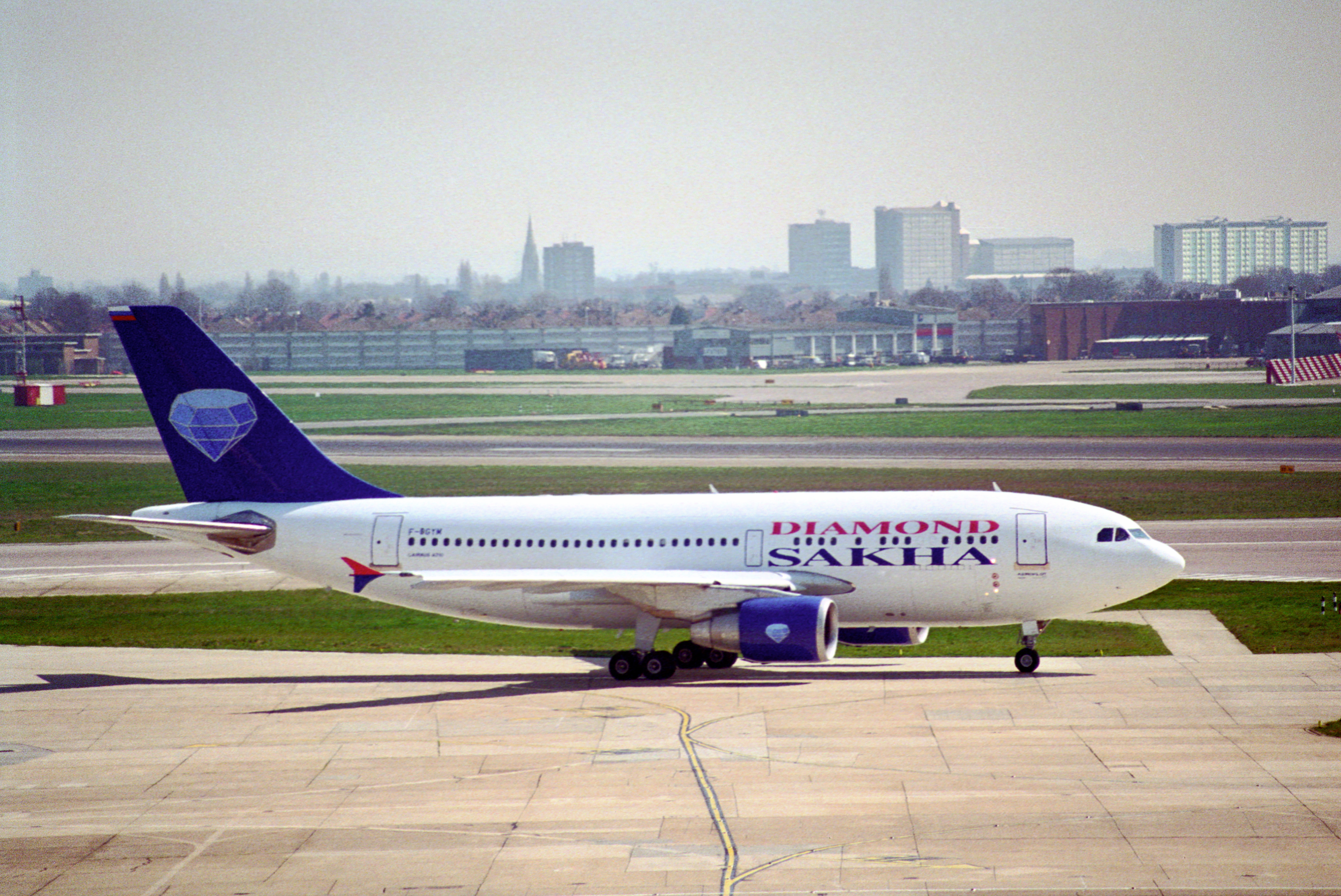 First flight: March 25, 1988...(c/n 457) 22/06/1988 Pan Am N820PA named Clipper Plymouth Rock 01/11/1991 Delta Air Lines N820PA 24/01/1995 Diamond Sakha F-OGYM 08/06/1995 Aeroflot F-OGYM 01/05/1998 Sakha Airlines F-OGYM 25/08/1999 Khalifa Airways F-OGYM stored at Chateauroux 03/2003 13/04/2005 Federal Express N811FD